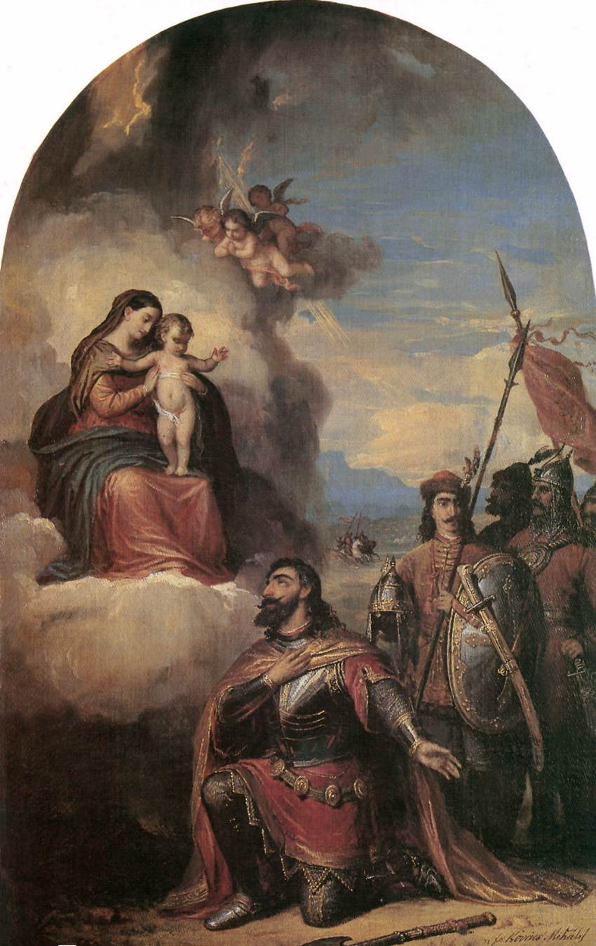 Sketch for the altar painting of the Saint Ladislaus Curch at Mezőkövesd